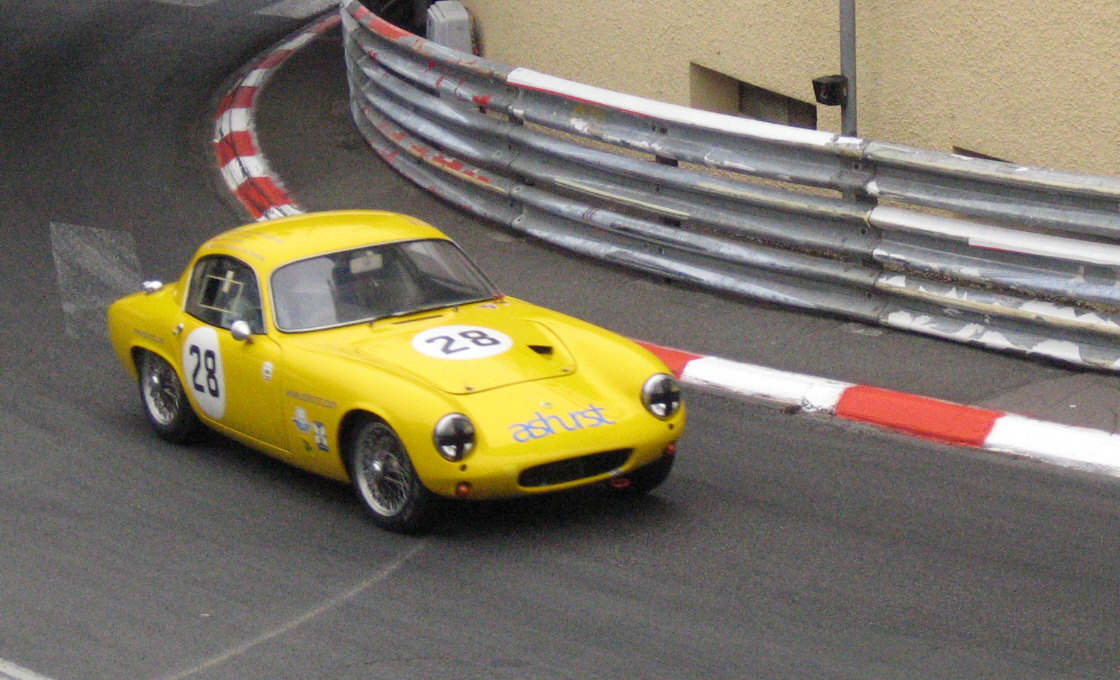 Racing Lotus Elite 14. Picture taken at the Historic Pau GP 2006. Picture is not of excellent quality, however could be useful.